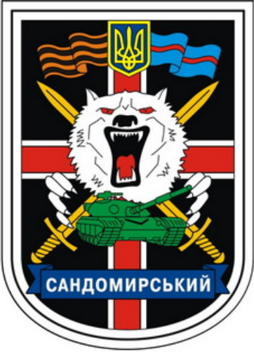 Shoulder sleeve insignia of the 300th Armour Training Regiment of the Ukrainian Army 169th Training Center